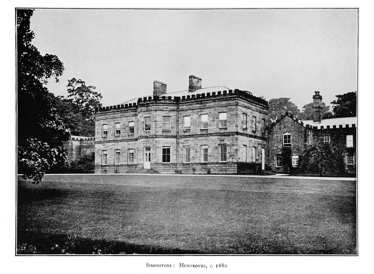 Huntroyde Hall, Simonstone, Lancashire c1880 from The Victoria History of the County of Lancaster Vol 6 P502 insert